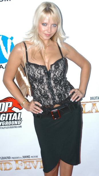 Jana Cova at Digital Playground party for movie Island Fever 4, September 17 2006